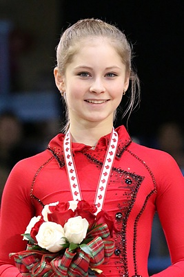 Yuliya Lipnitsкaya at the Sкate Canada 2013